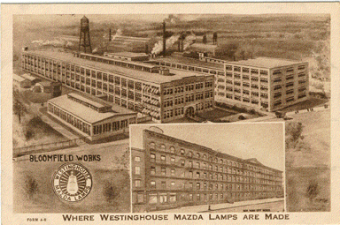 Postcard circa 1905 of Westinghouse Lamp Works in Bloomfield, New Jersey